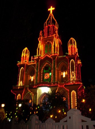 The Church illuminated during the Christmas of 2004 - Moolachel